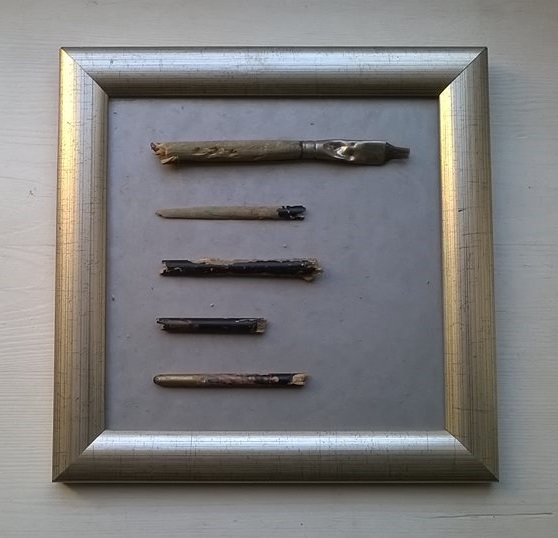 "Amstaff Yoko from Zgierz" of Witold Szwedkowski, haptic limerick